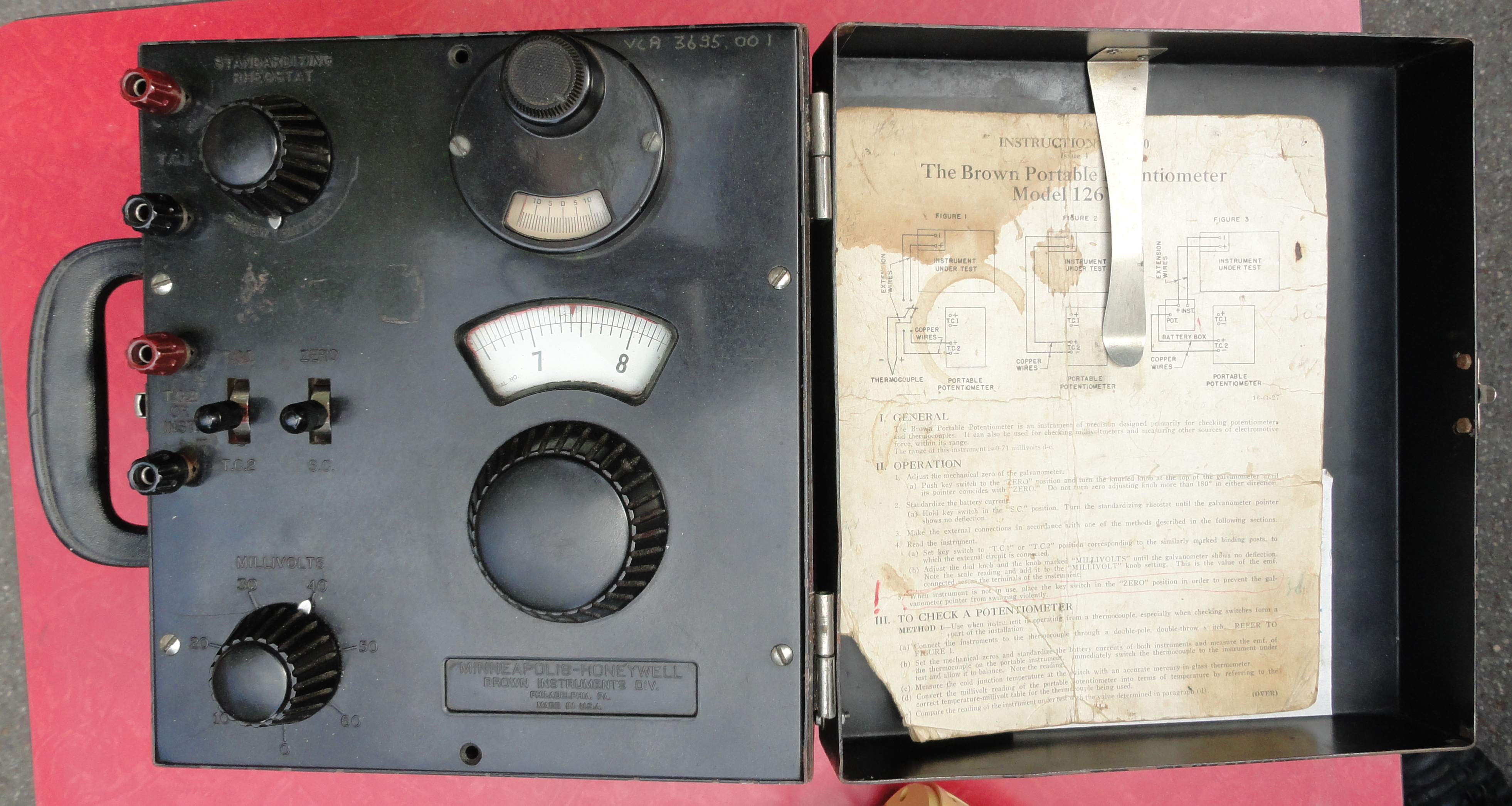 The Brown Portable Potentiometer Model 126V